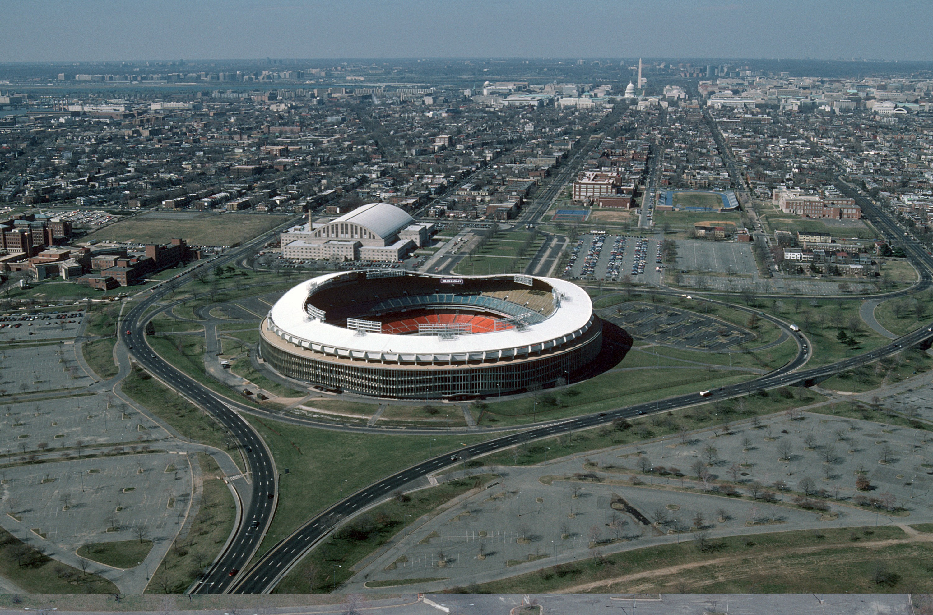 An aerial view of Robert F. Kennedy Memorial Stadium. Location: WASHINGTON, DISTRICT OF COLUMBIA (DC) UNITED STATES OF AMERICA (USA)